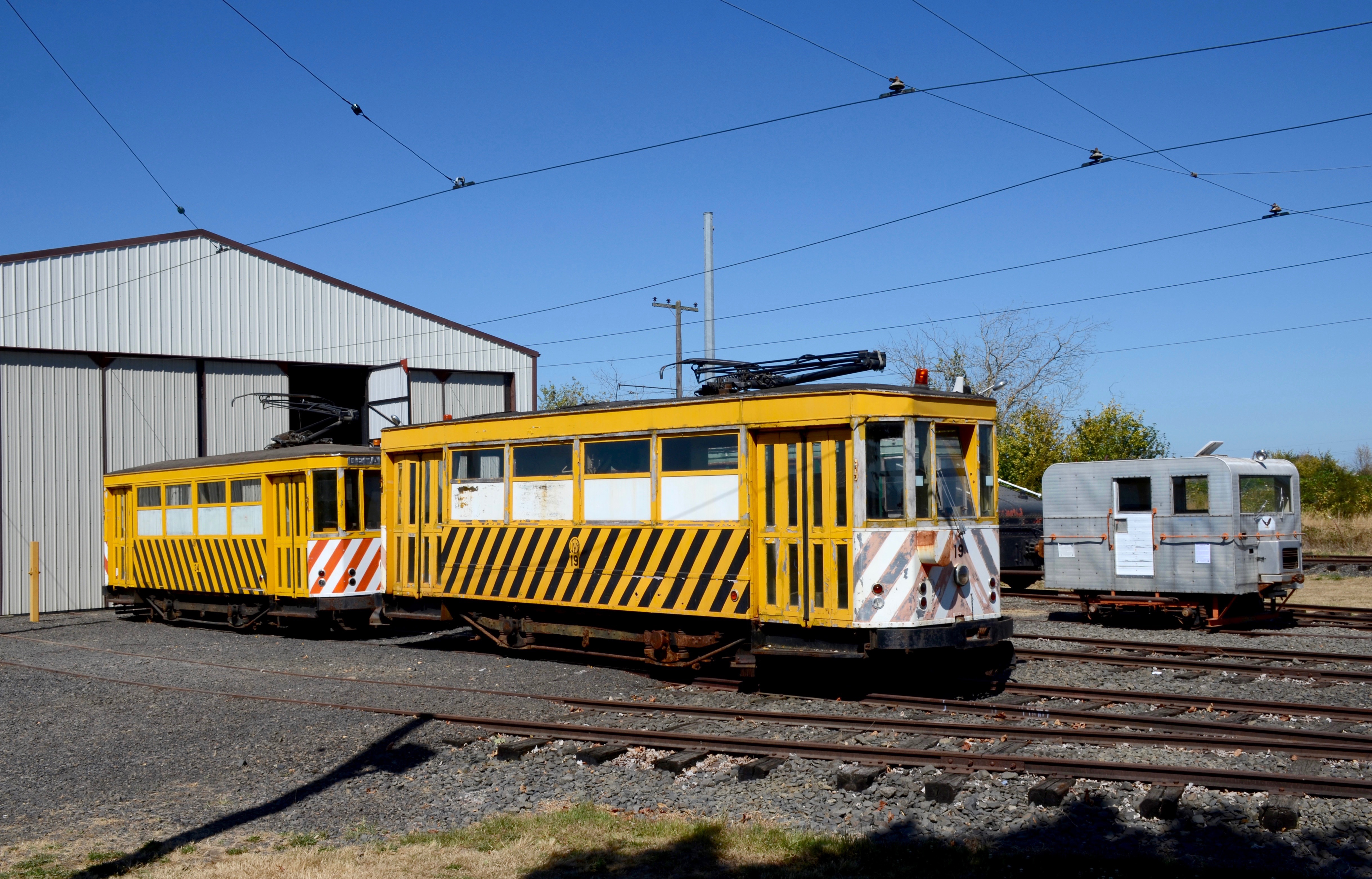 In front of the carbarn at the Oregon Electric Railway Museum (Brooks, Oregon) are 1934-built Brussels car 19 (in the center) and similar car 34 behind it (also built in 1934). Both were originally passenger streetcars, but were converted into work (maintenance) cars in 1970–71.